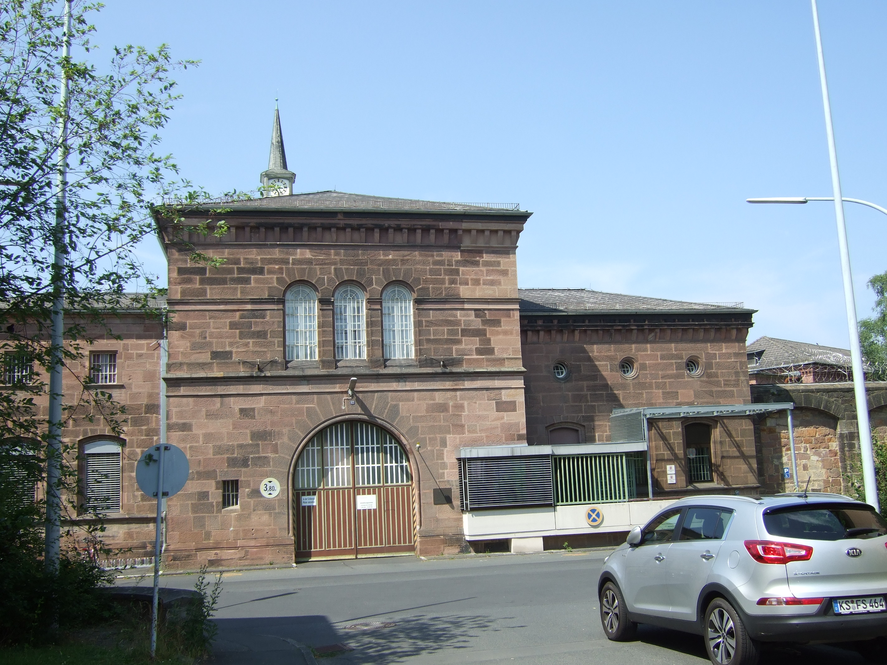 JVA Kassel 1